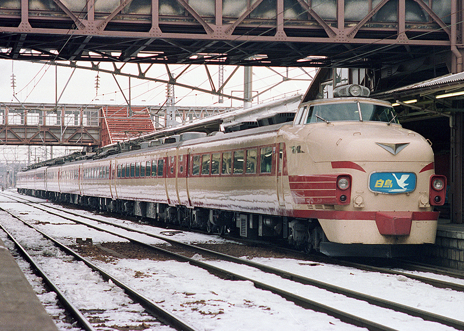 JNR 485 series EMU on a "Hakucho" limited express service at Akita Station